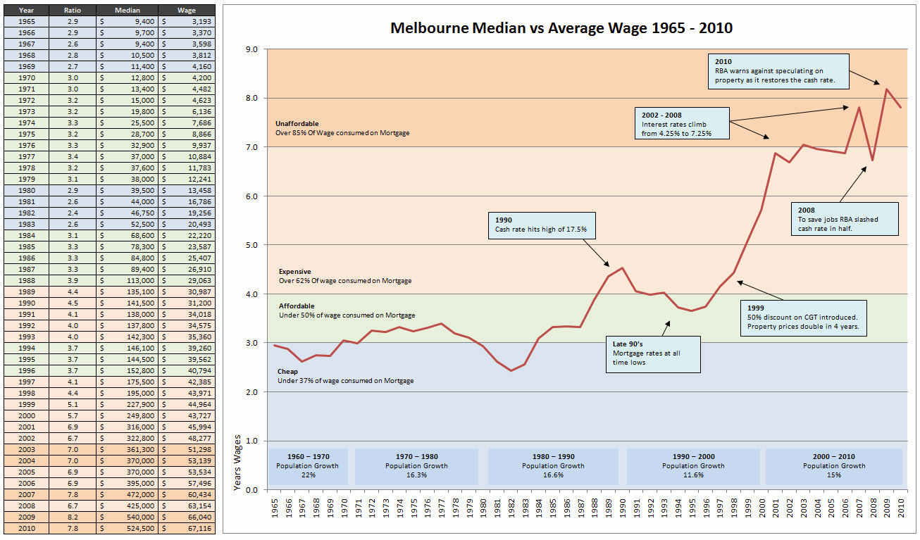 Melbourne's Median House Prices Vs Wages In Australia Compiled using data from ABS and REIV.